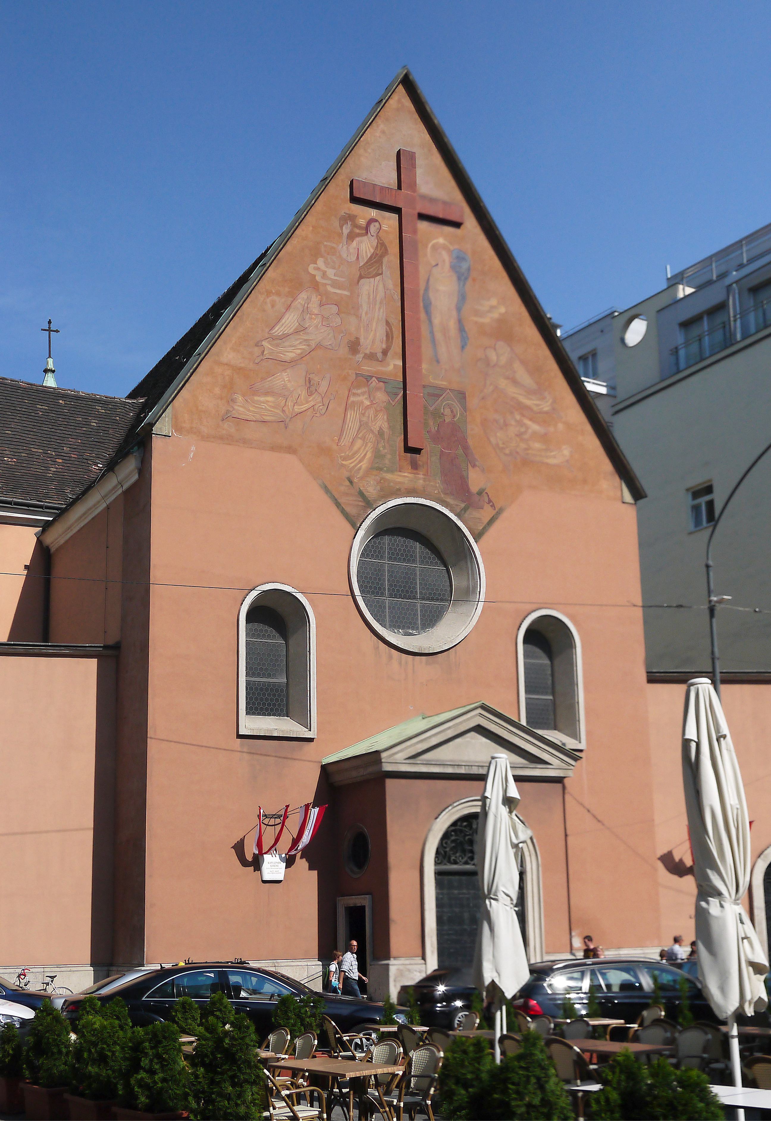 Capuchin Church in Vienna, Austria